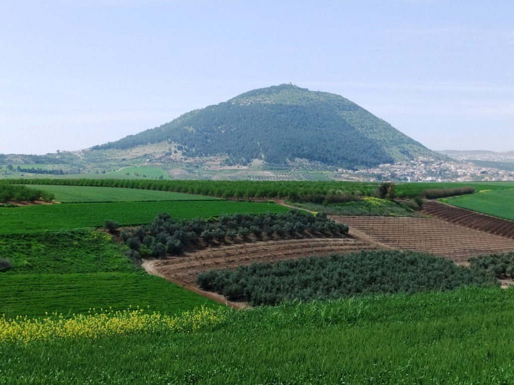 Wadi mas\'ha